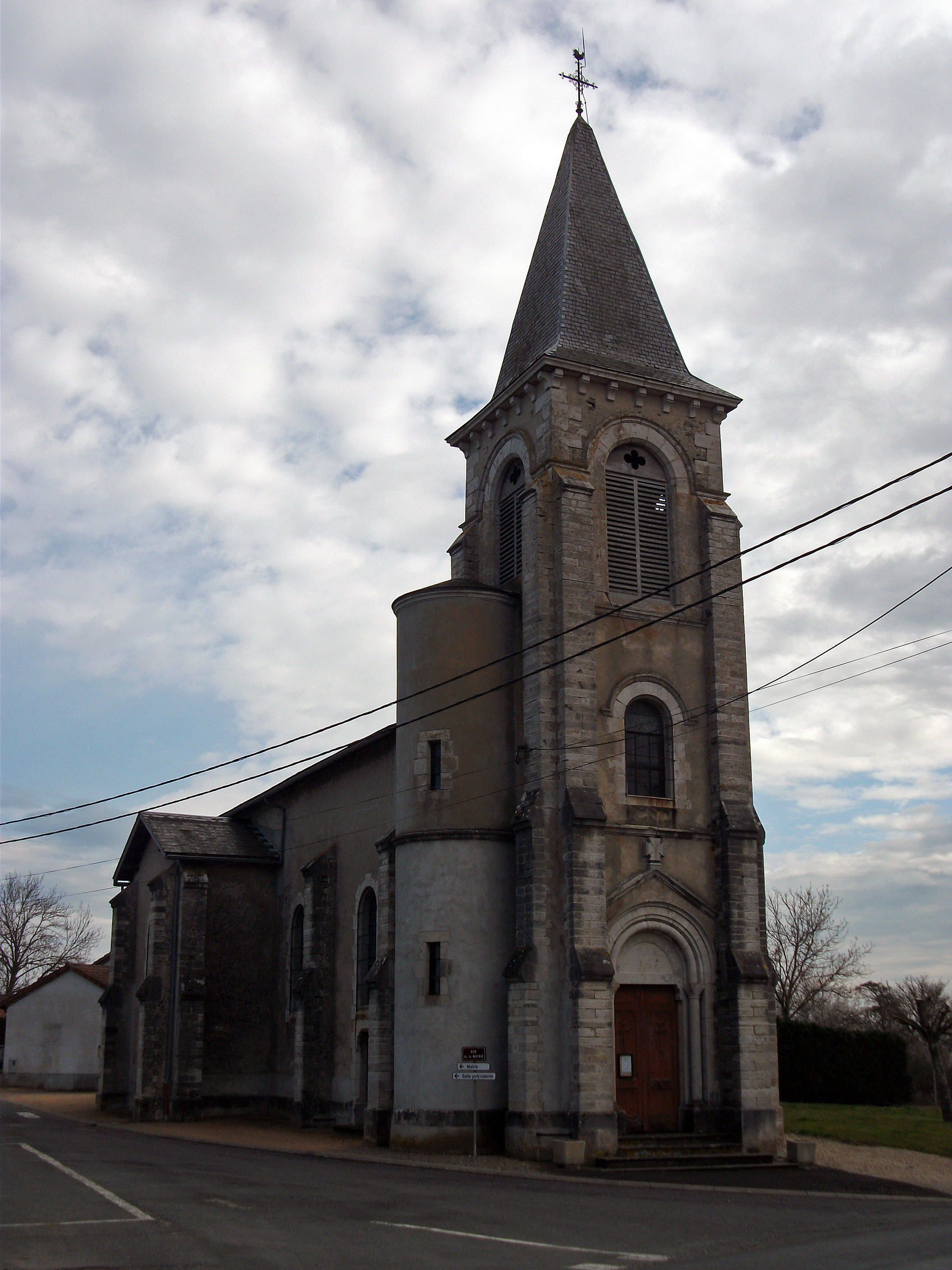 Church of Beaumont-lès-Randan, Puy-de-Dôme [10426]